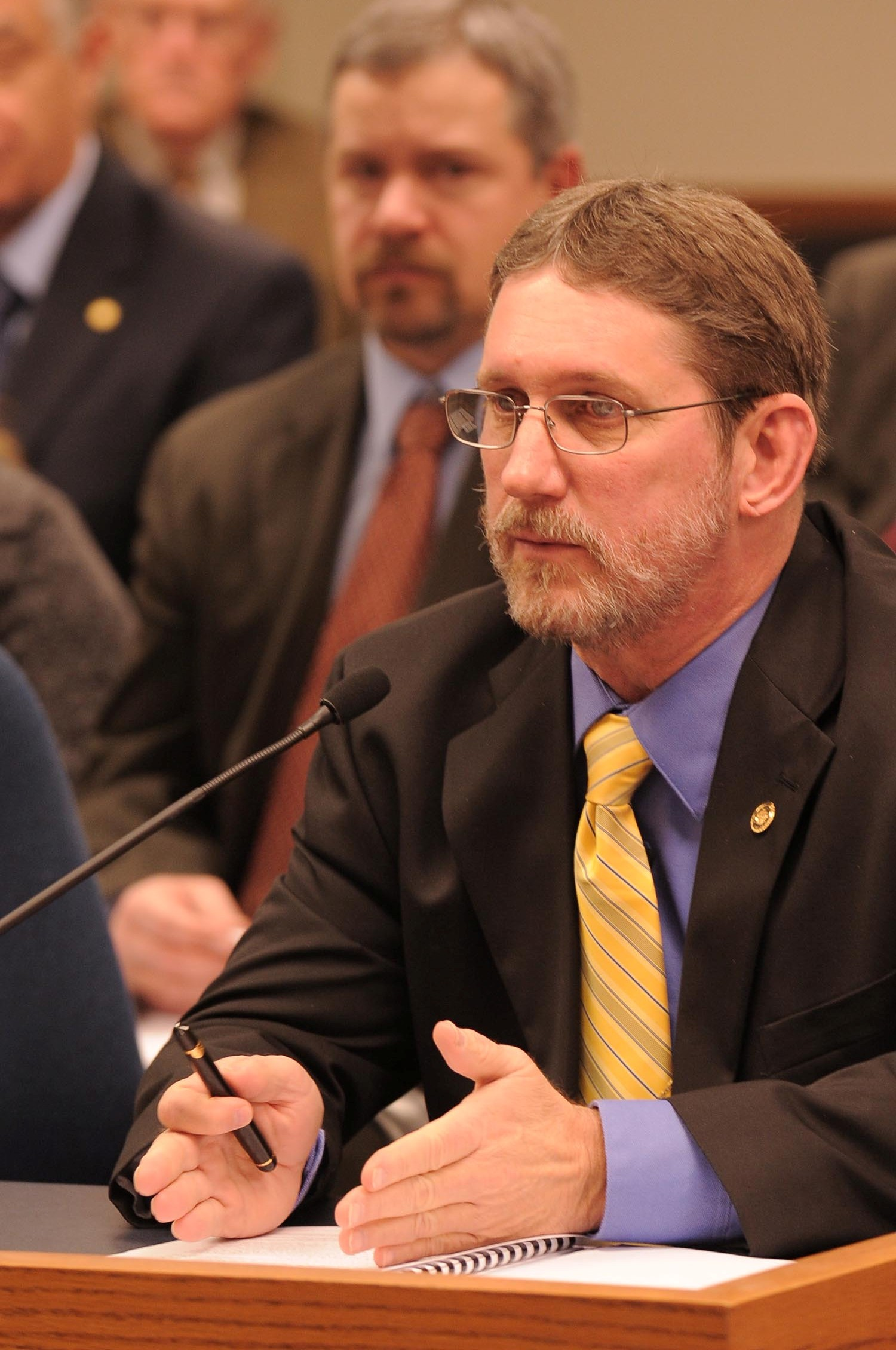 Rep. Day presenting a bill to a House Committee.